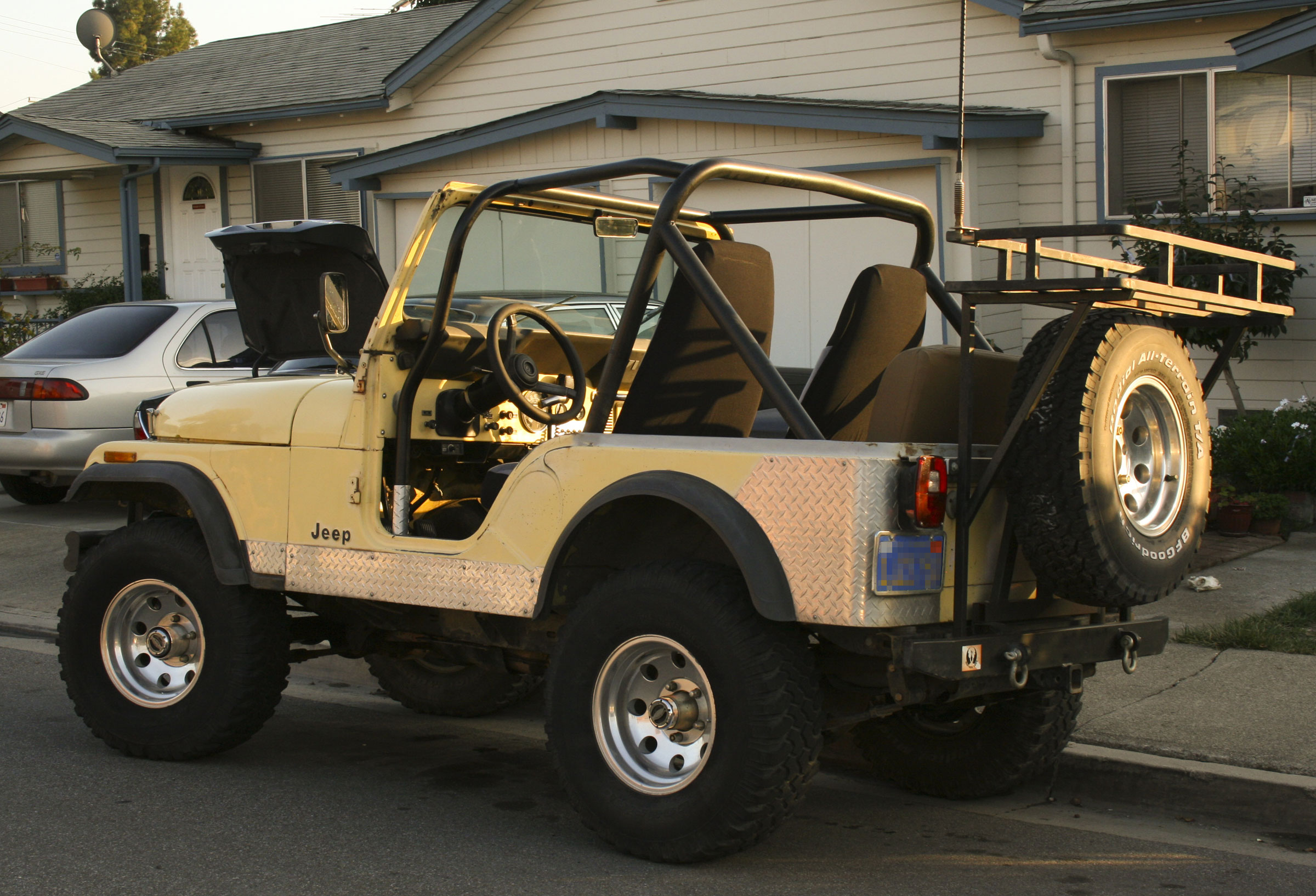 1980 Jeep CJ5 258 6 cyl 4 speed